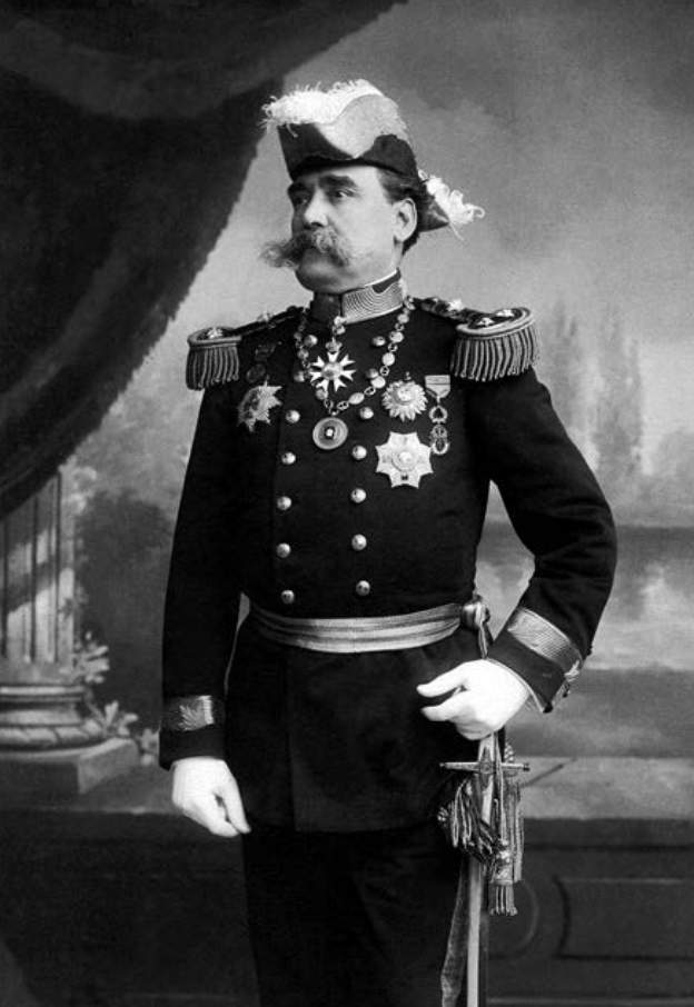 Portrait photograph of General Joaquim José Machado in the collection of the Lisbon Geographic Society.